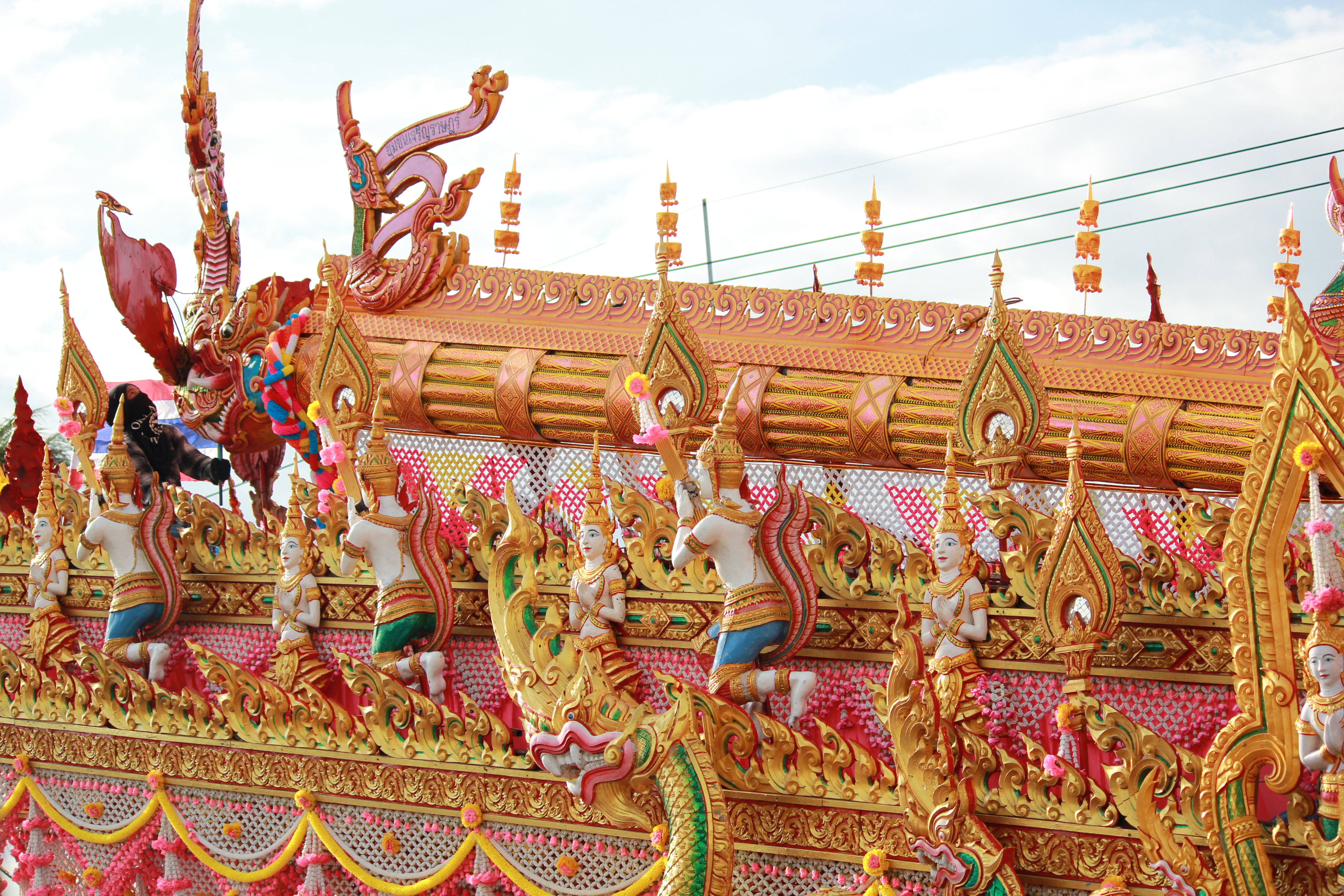 บั้งไฟลายศรีภูมิ ตัวบั้งไฟ โดย อ.เลียบ แจ้งสนาม ภูมิลำเนา บ้านเล้าข้าว ตำบลหินกอง อ.สุวรรณภูมิ จ.ร้อยเอ็ด (ปัจจุบัน พำนักใน อ.เกษตรวิสัย จ.ร้อยเอ็ด) เครื่องเอ้ โดย อ.เลื่อน บ้านแคน ตำบลโหรา อ.อาจสามารถ จ.ร้อยเอ็ด